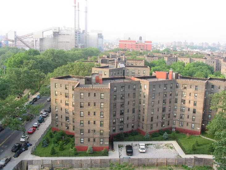 The Queensbridge public housing development in the neighborhood of Long Island City in Queens, New York.